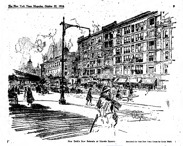 A sketch captioned "New York's New Bohemia at Lincoln Square," accompanying an article entitled "Owen Johnson Discovers a New Bohemia Here," by Owen Johnson